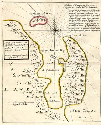 Map of the scotish Darién Colony